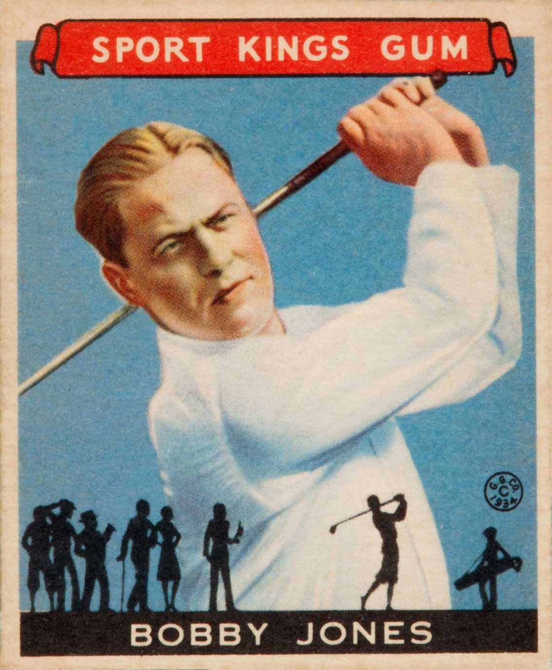 1933 Sport Kings Bobby Jones #38